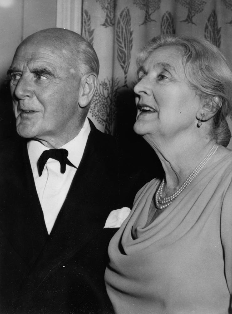 Thorndike Family The Thorndikes in Brisbane. (Description supplied with photograph).